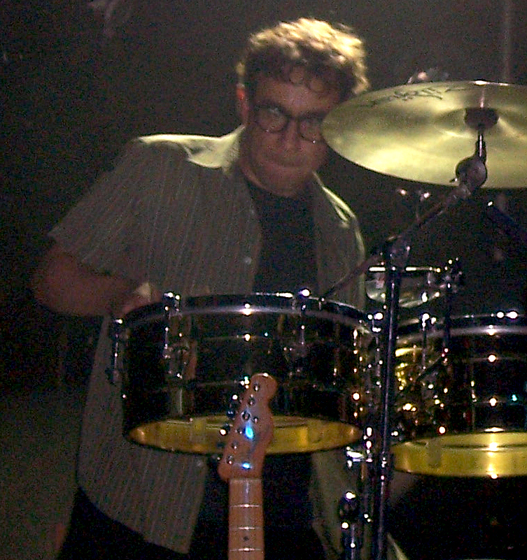 Actor and drummer Fred Armisen performing at Webster Hall. Cropped version of Image:Simon Dawes Fred Armisen.jpeg.